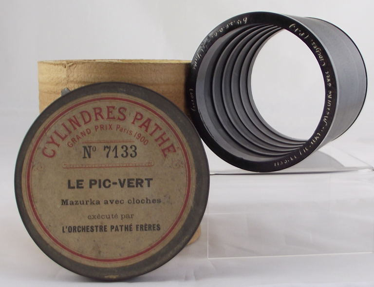 The vertical-groove pathé cylinder